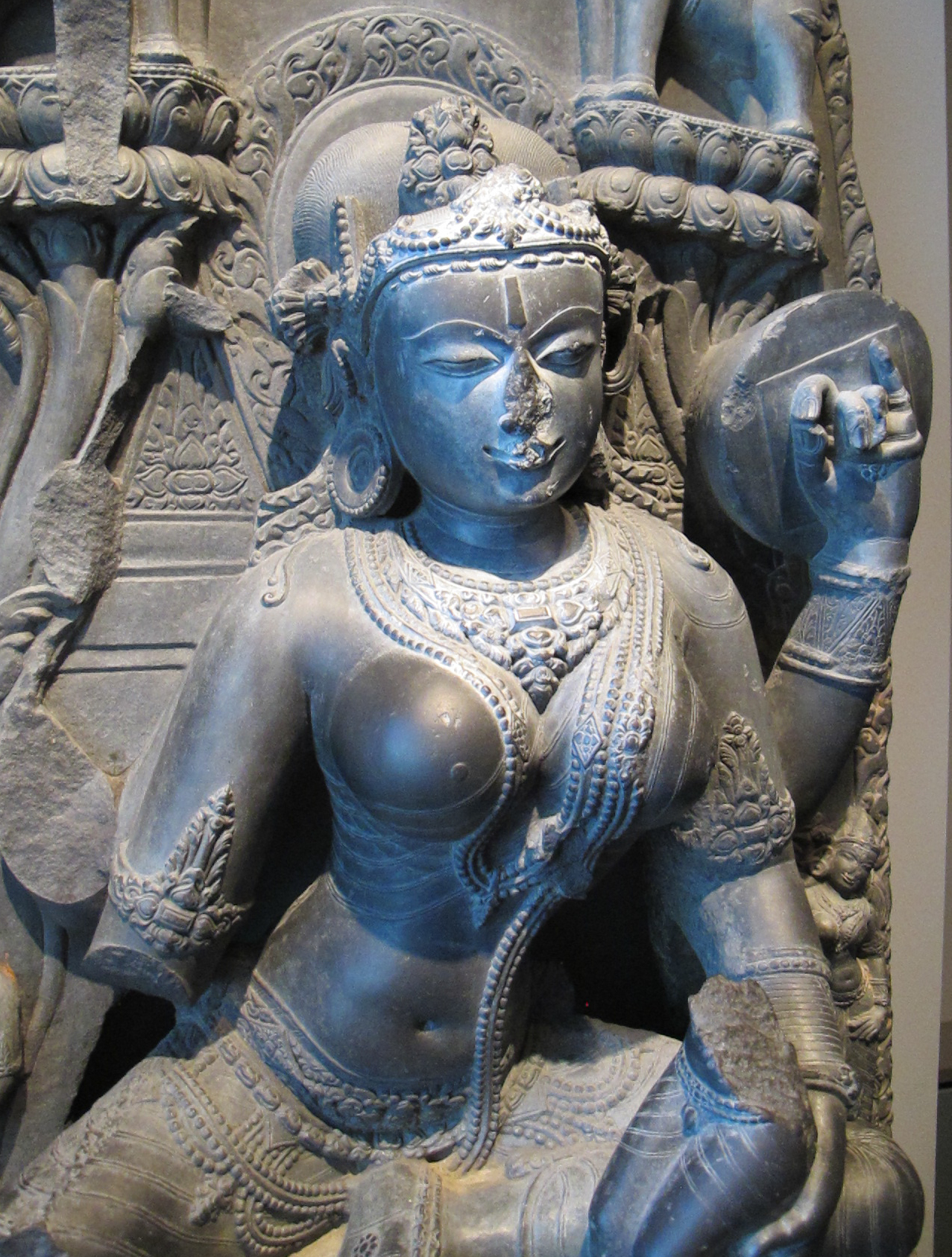 Statue of Parvati at San Francisco Museum, United States